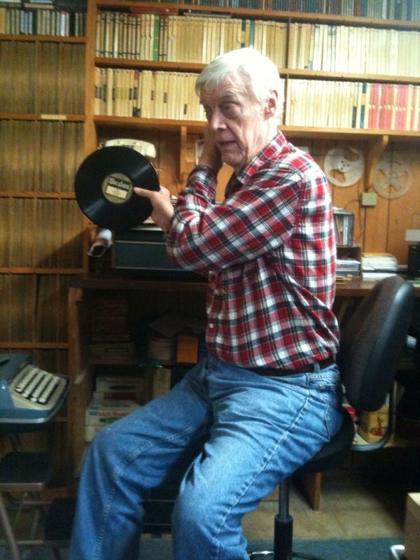 Taken on my iPhone at Joe's house